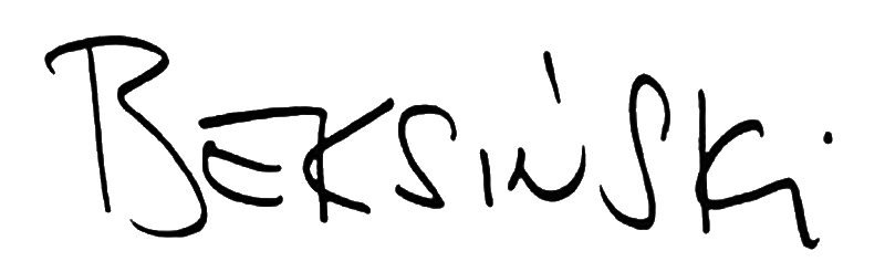 Signature of Zdzisław Beksiński